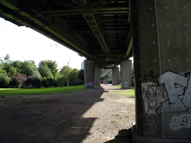 Below the M4. Under the elevated section of the M4. Here the elevated motorway crosses Boston Manor Park heading to the point where it runs above the A4.